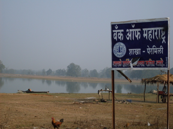 Board of Bank of Maharashtra in Perimili, a Madia Gond Village, in Bhamragad Taluka of Gadchiroli District of Maharashtra, India